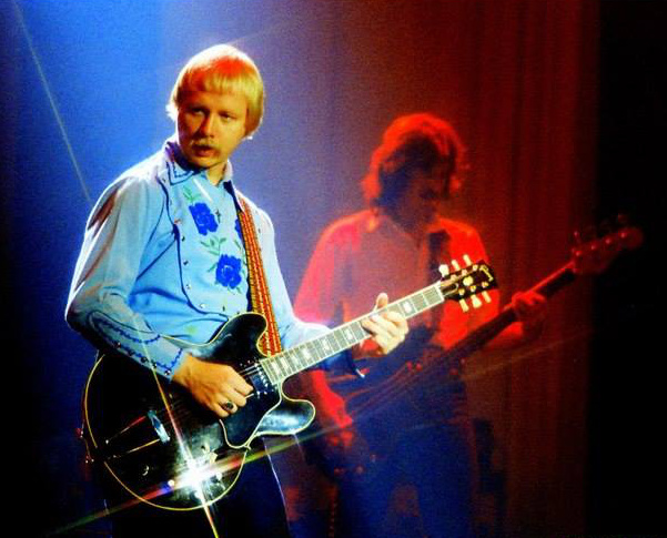 Kerry Livgren in Memphis Tennessee with Kansas Monolith tour